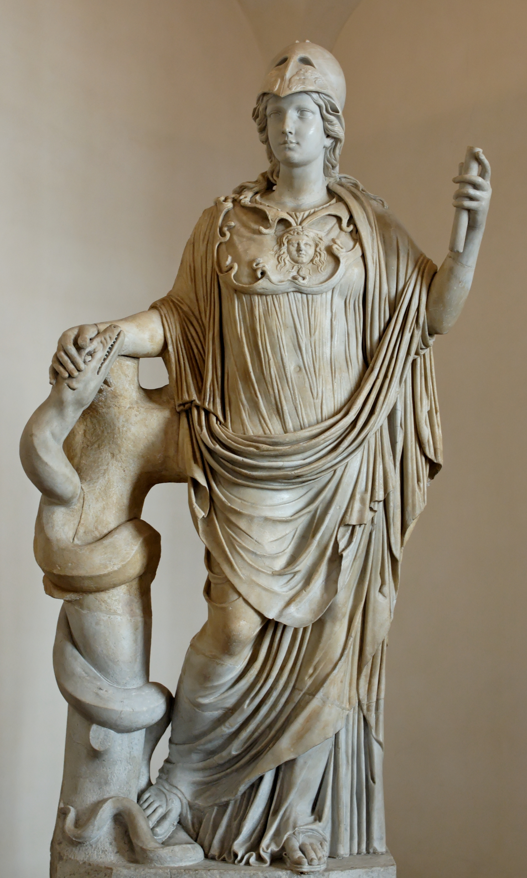 Athena. The statue was found in 1627 in fragments at the Campus Martius, near Santa Maria sopra Minerva. It probably represented Hygieia but was restored as an Athena by Alessandro Algardi to oblige his patron, Cardinal Ludovisi. Original parts (torso, lower body and snake): marble; restored elements (mainly head and aegis): Carrara marble.